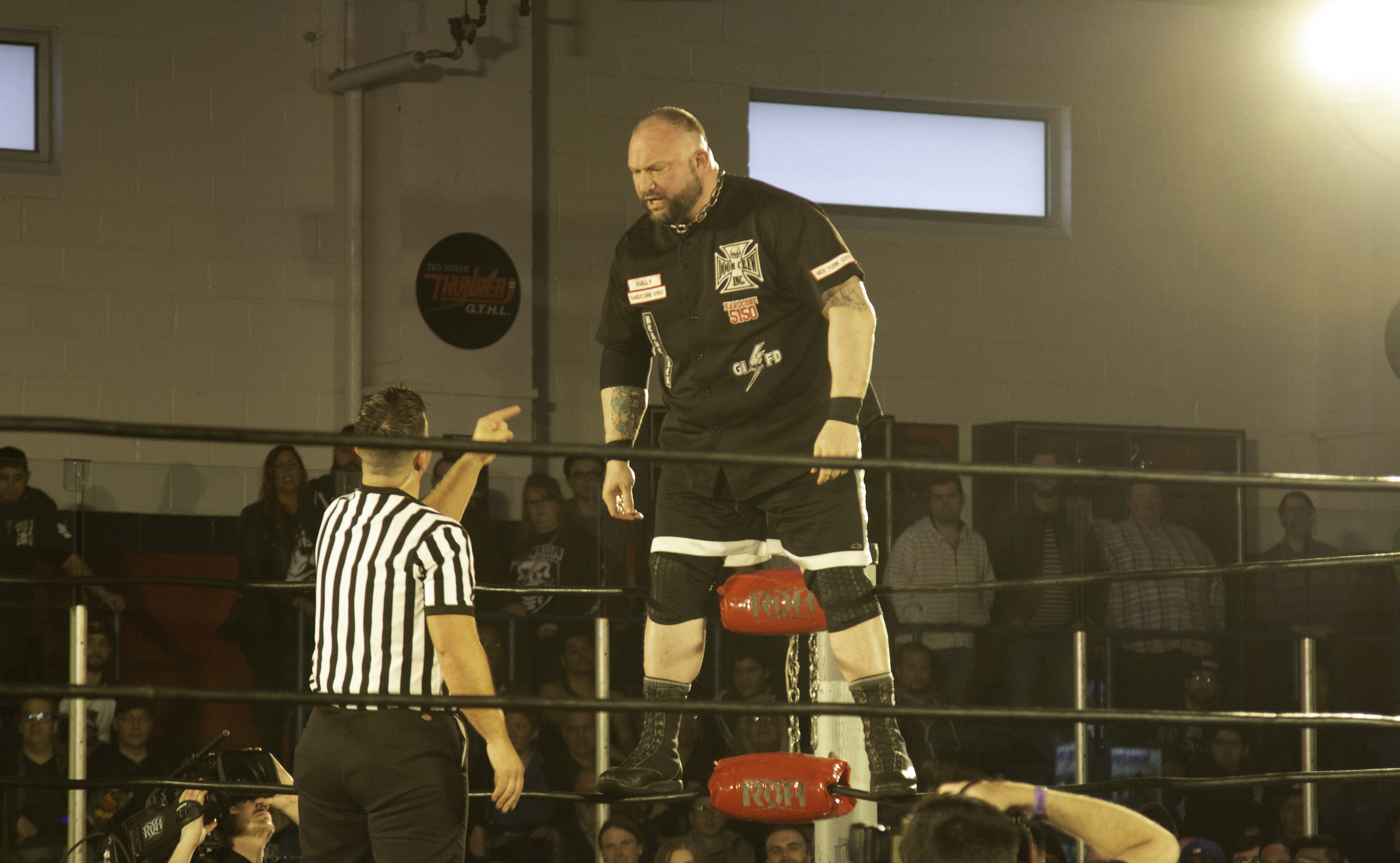 Pro wrestler Bully Ray in ROH